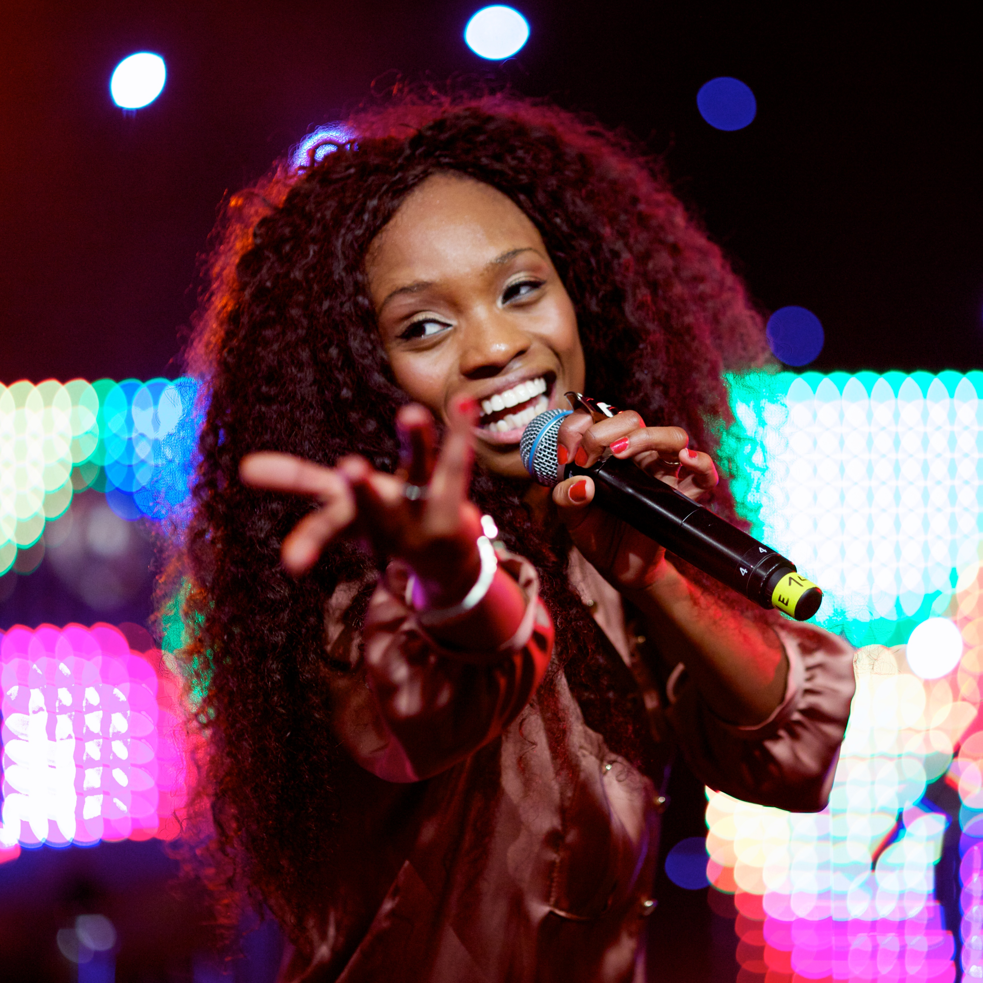 Stella Mwangi at Handelsstevnet 2011